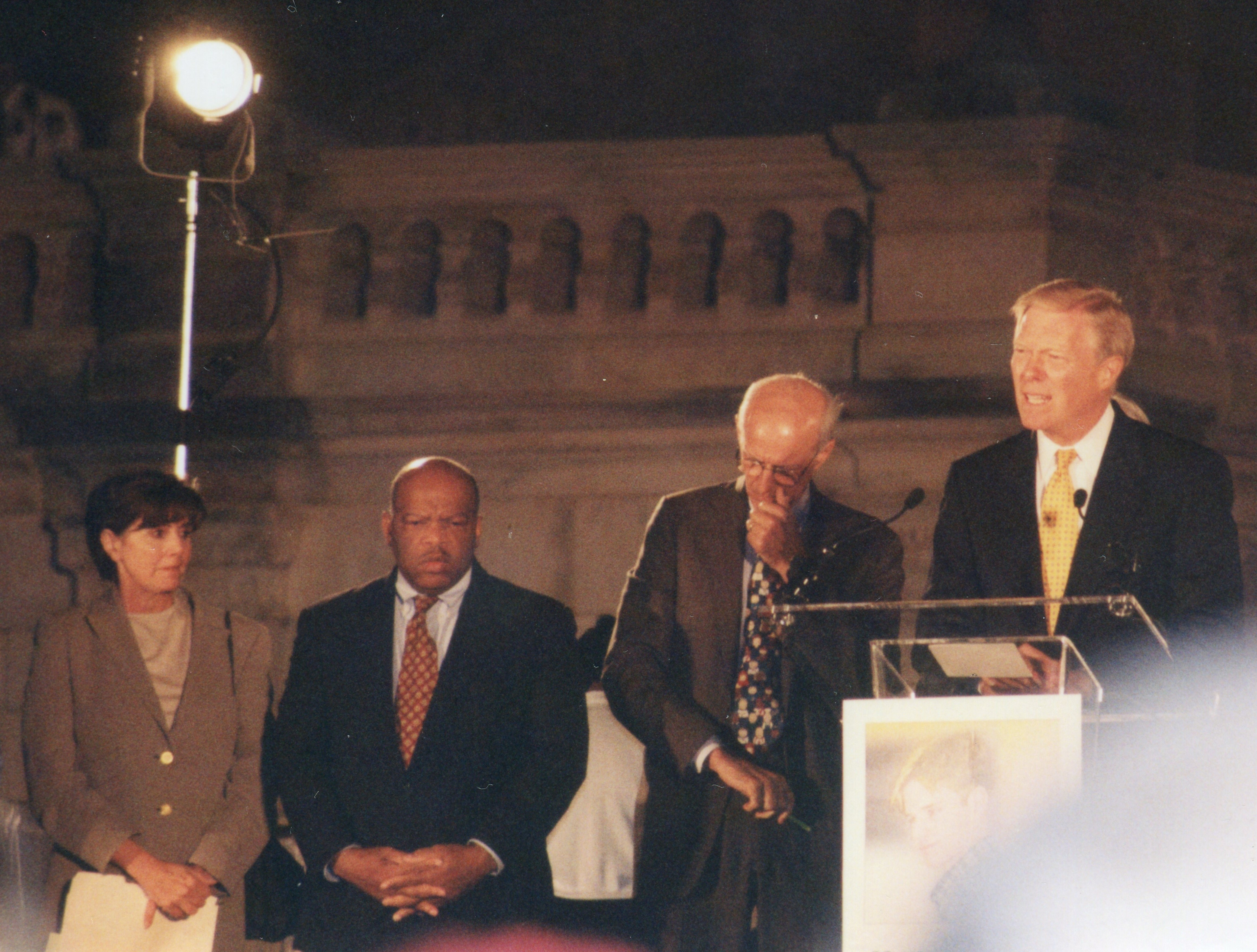 MATTHEW SHEPARD CANDLELIGHT VIGIL at the US Capitol West Lawn in Washington DC on Wednesday night, 14 October 1998 by Elvert Barnes Protest Photography Senator DICK GEPHARDT CNN article at Watch SUCH IS LIFE video at MATTHEW SHEPARD FOUNDATION at Elvert Barnes PROTEST PHOTOGRAPHY at